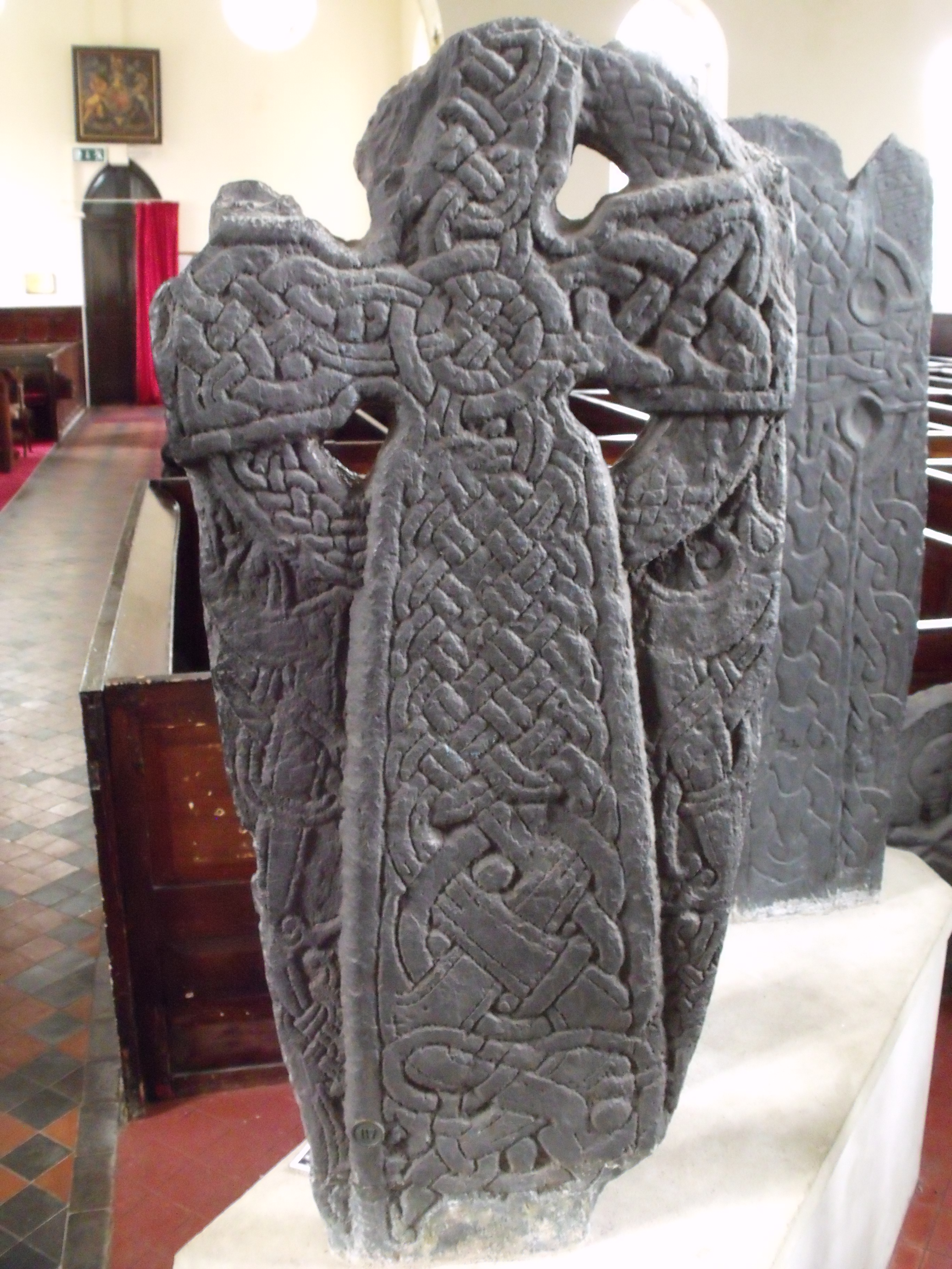 Dragon Cross, at Kirk Michael (IOM)